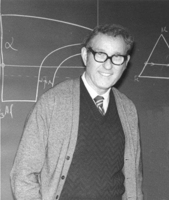 Photograph: William E. (Ed) Wallace (1917-2004), American Chemist Photographer: Devlin M. Gualtieri Photograph Taken: 1976 Uploaded by the Photographer to Wikipedia on July 21, 2006, and released under the Creative Commons Attribution ShareAlike 2.5 License